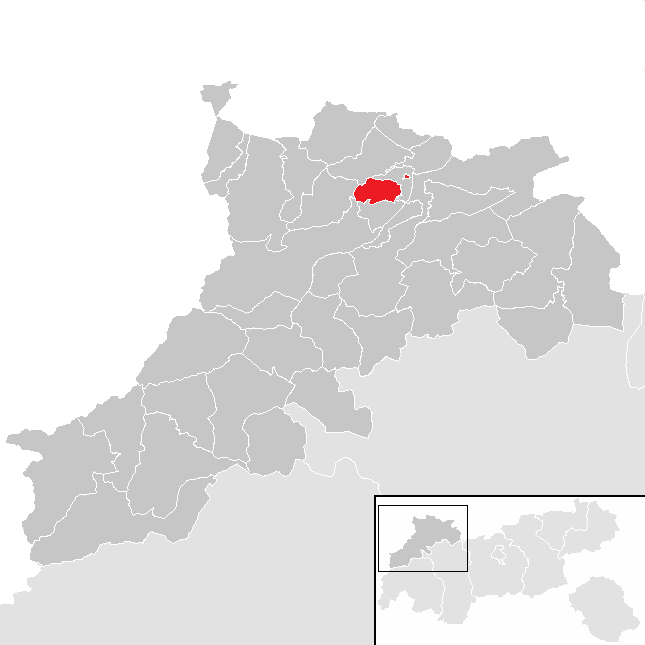 District Reutte